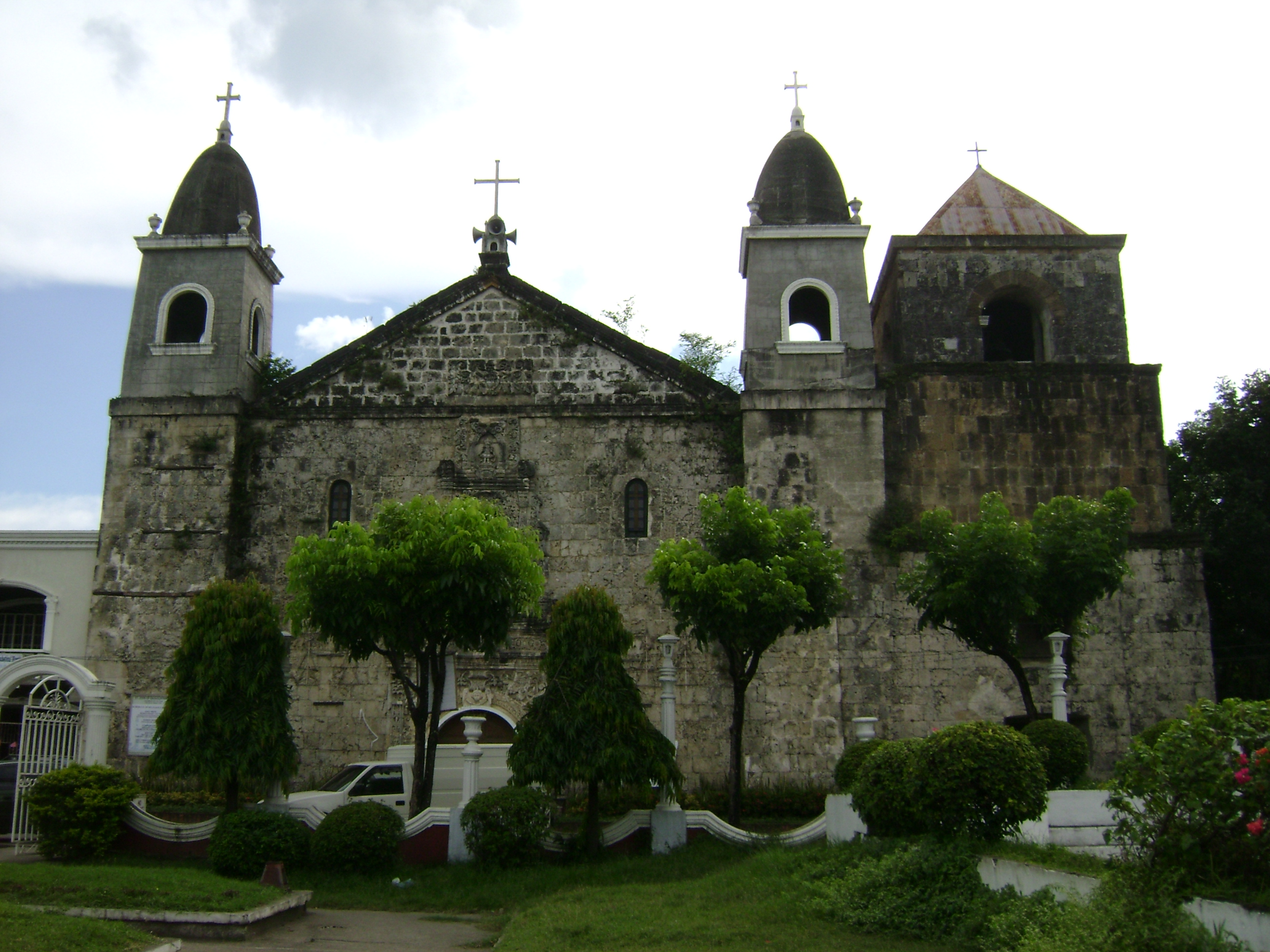 Saint John of Sahagun Parish Church in Tigbauan, Iloilo